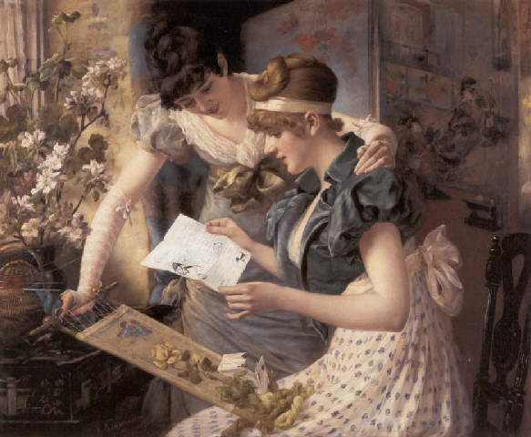 The amusing letter